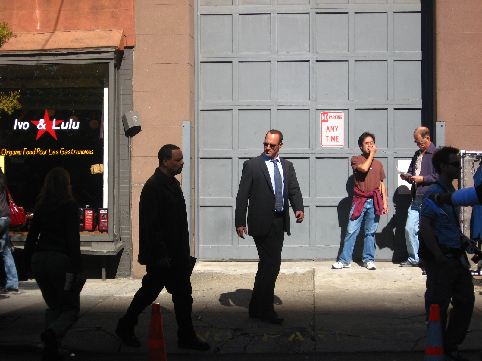 This is a picture of the filming of Law & Order: Special Victims Unit that was taken October to, 2008 in Broome St, SoHo, New York.